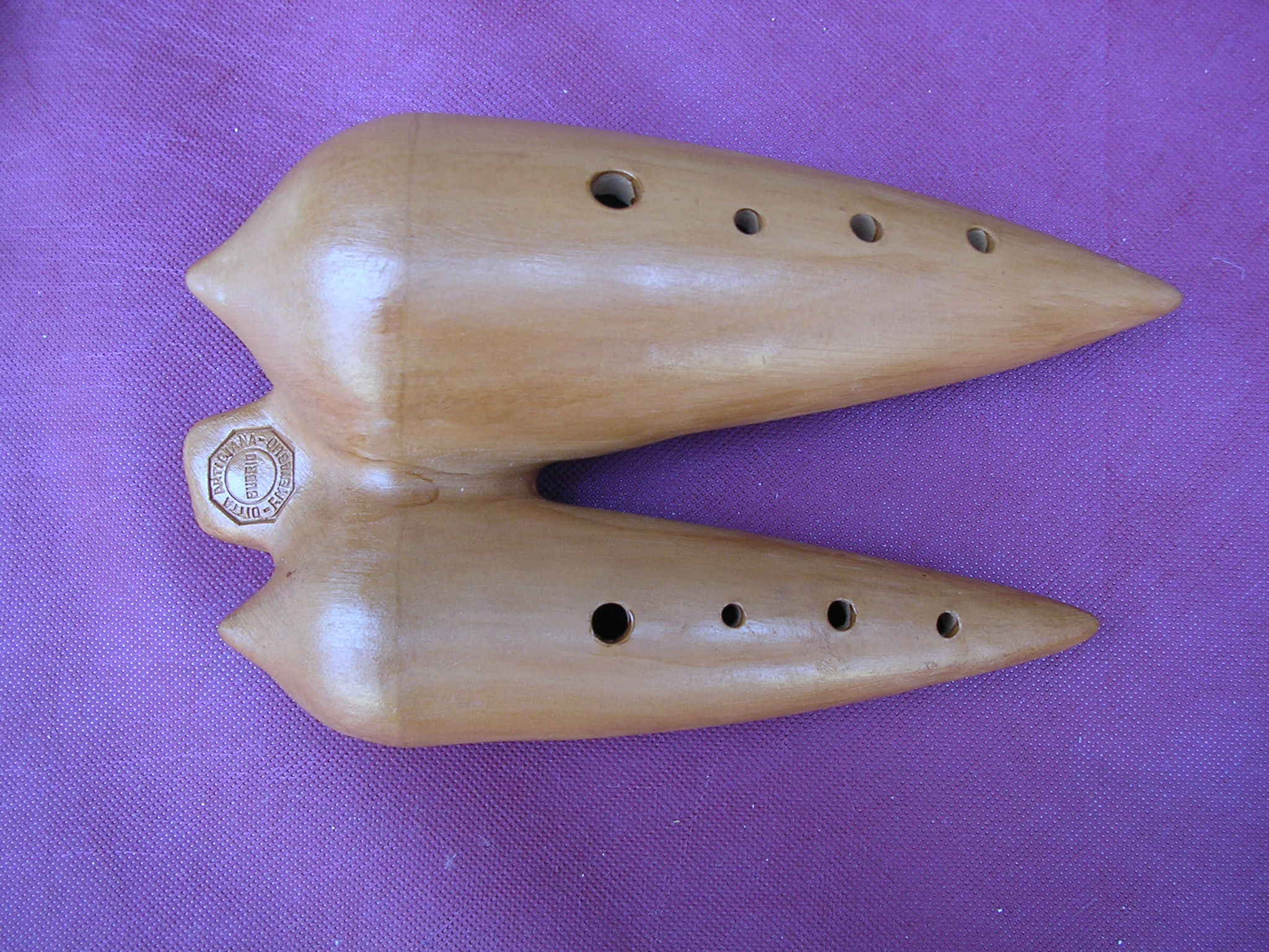 Double Ocarina di Budrio, picture taken at ocarinafestival 2009